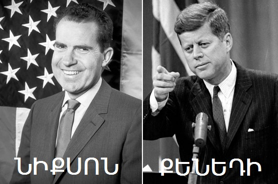 ԱՄՆ նախագահնեը